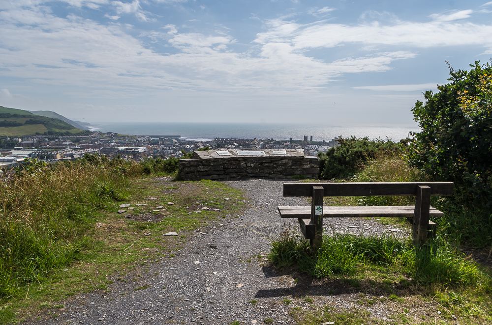 Viewpoint, Parc Natur Penglais